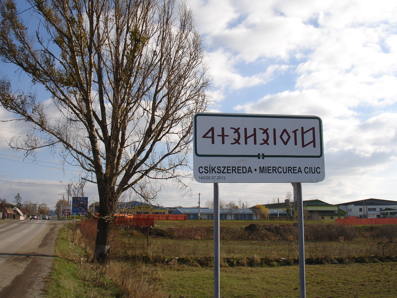 City limit table in Csíkszereda/Miercurea Ciuc, Romania. Traditional hungarian letters (rovas)